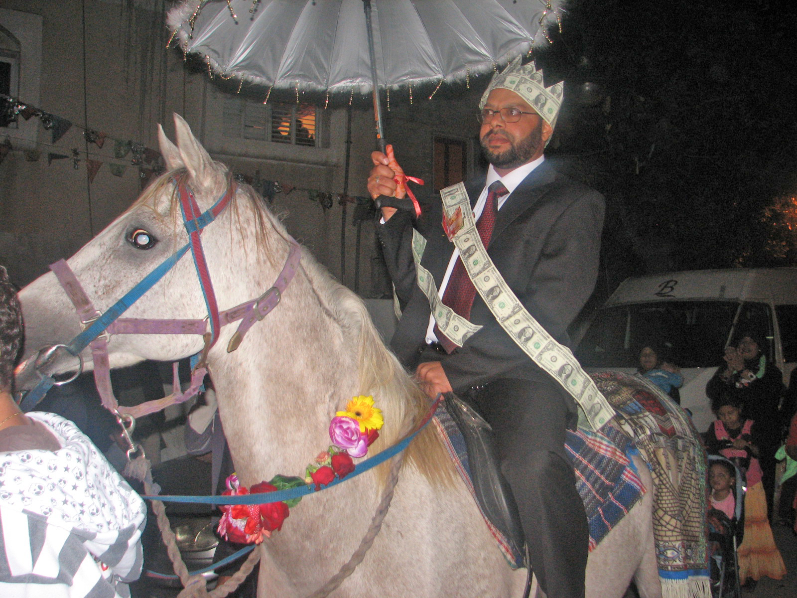 A wedding march along Jissr A-Zarka's main street. The groom is wearing a crown of dollars as a symbol of might and richess; he and his horse are adorned and are being led by an open minitruck packed with merrying crowd.